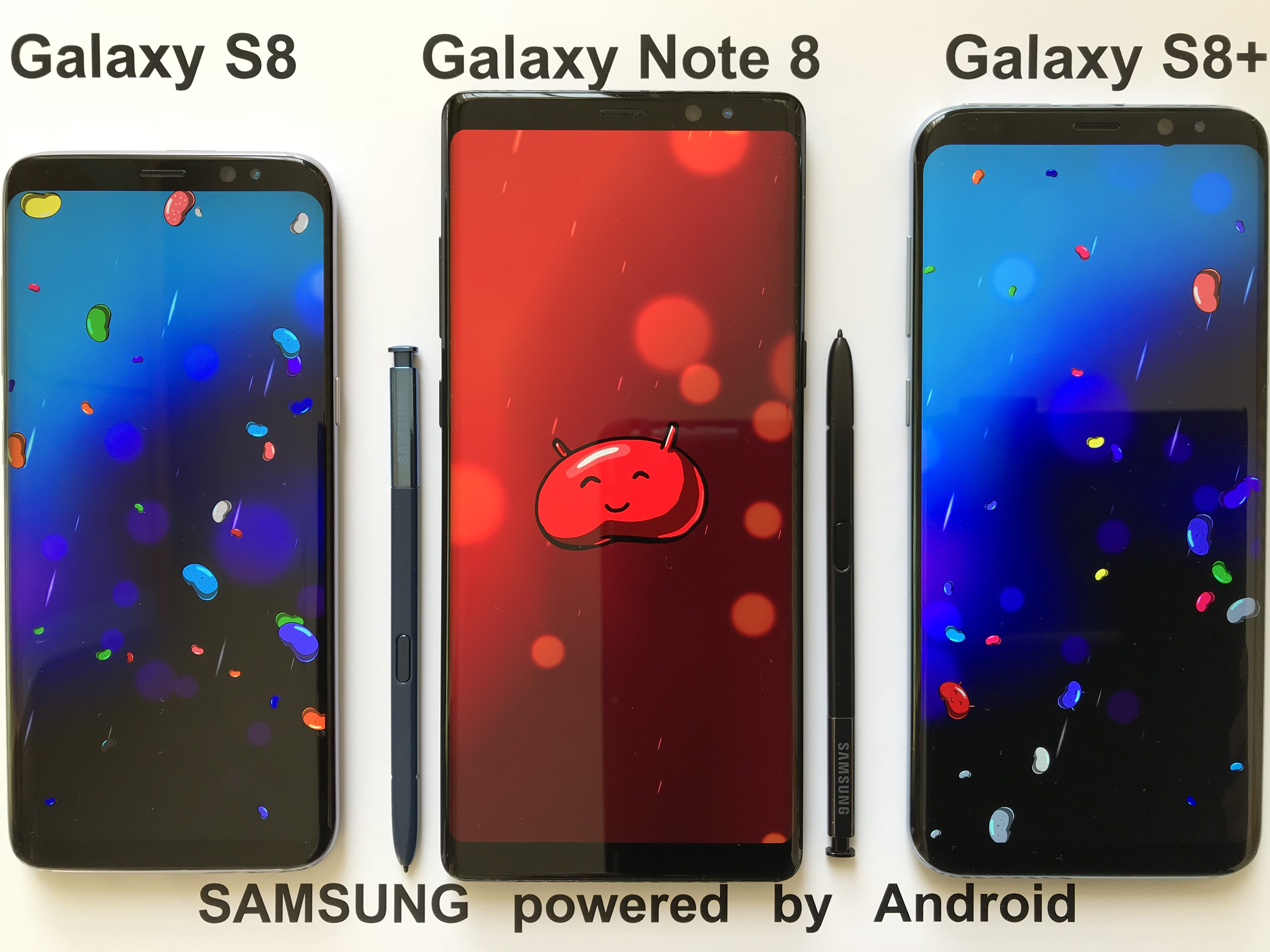 Android 4.1-3 Jelly Bean